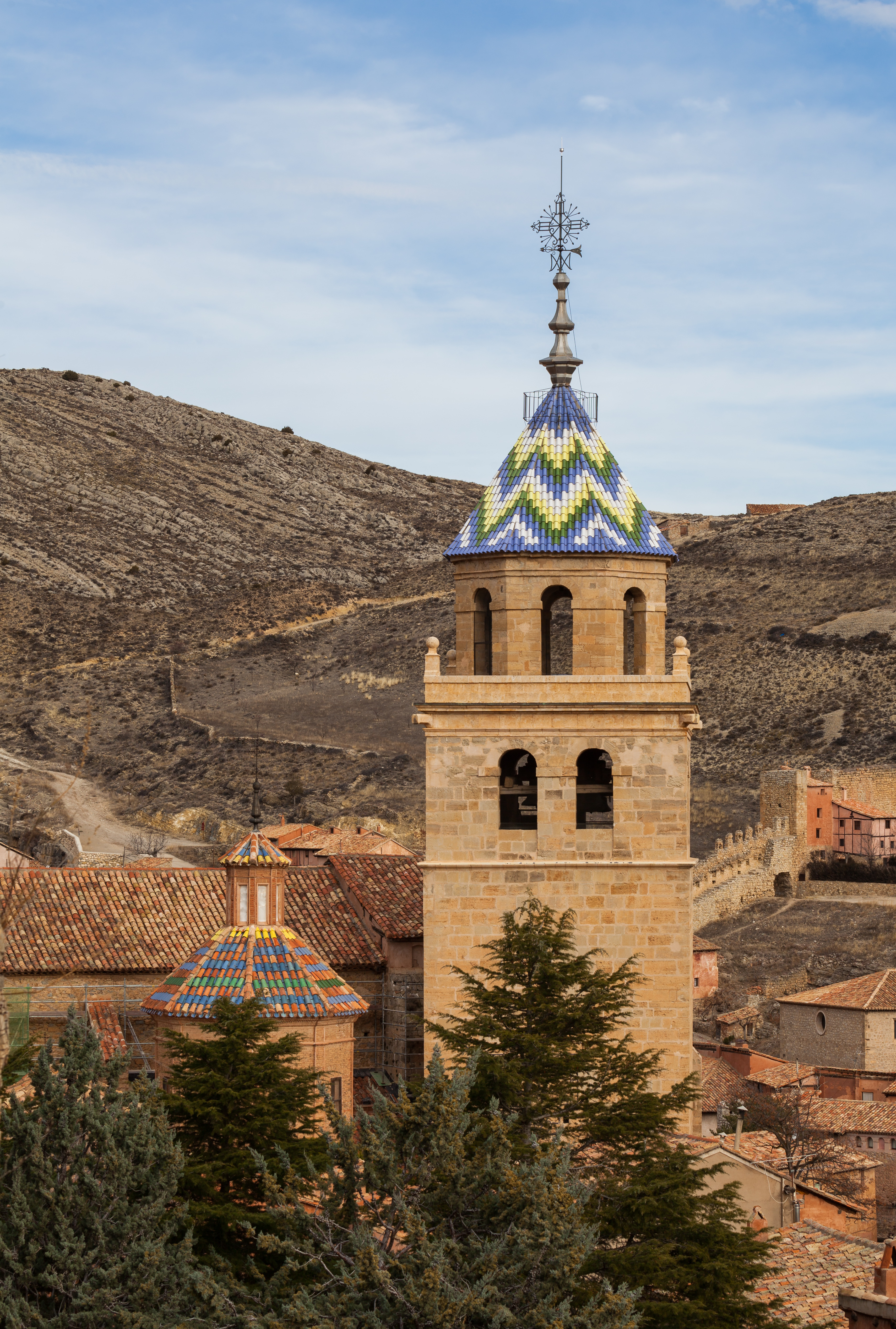 Albarracín Cathedral, Teruel, Spain